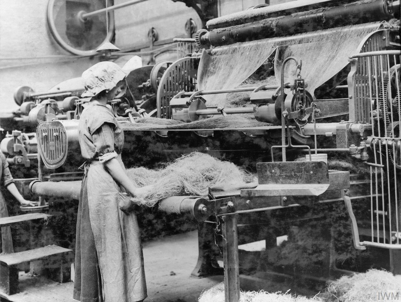 Industry during the First World War A female worker carding hemp in a British factory during the First World War.